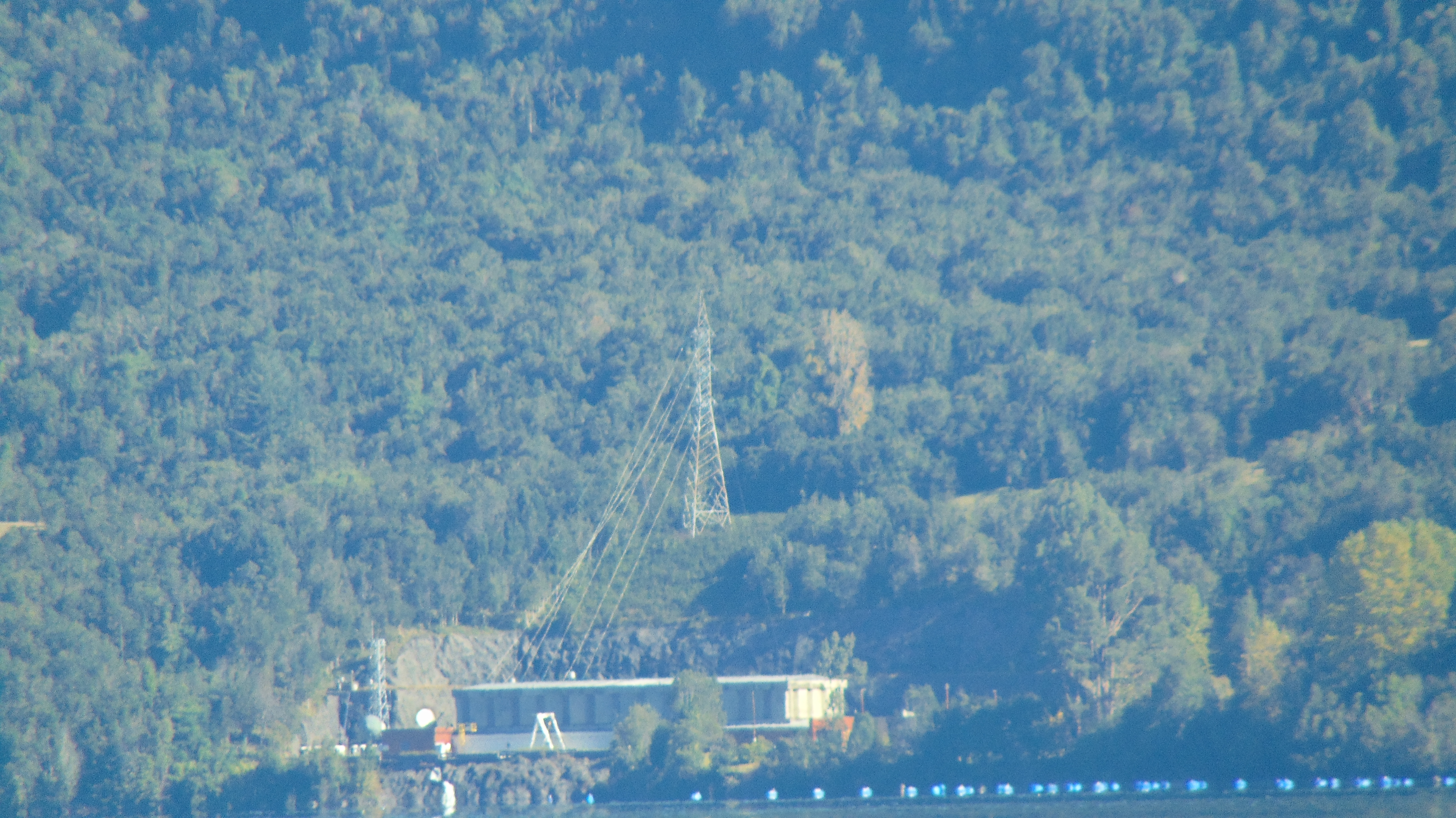 Canutillar Hidroelectric Power Plant from Cochamó, Chile